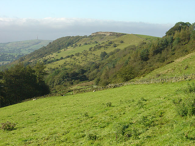 Hillside near Walker Barn